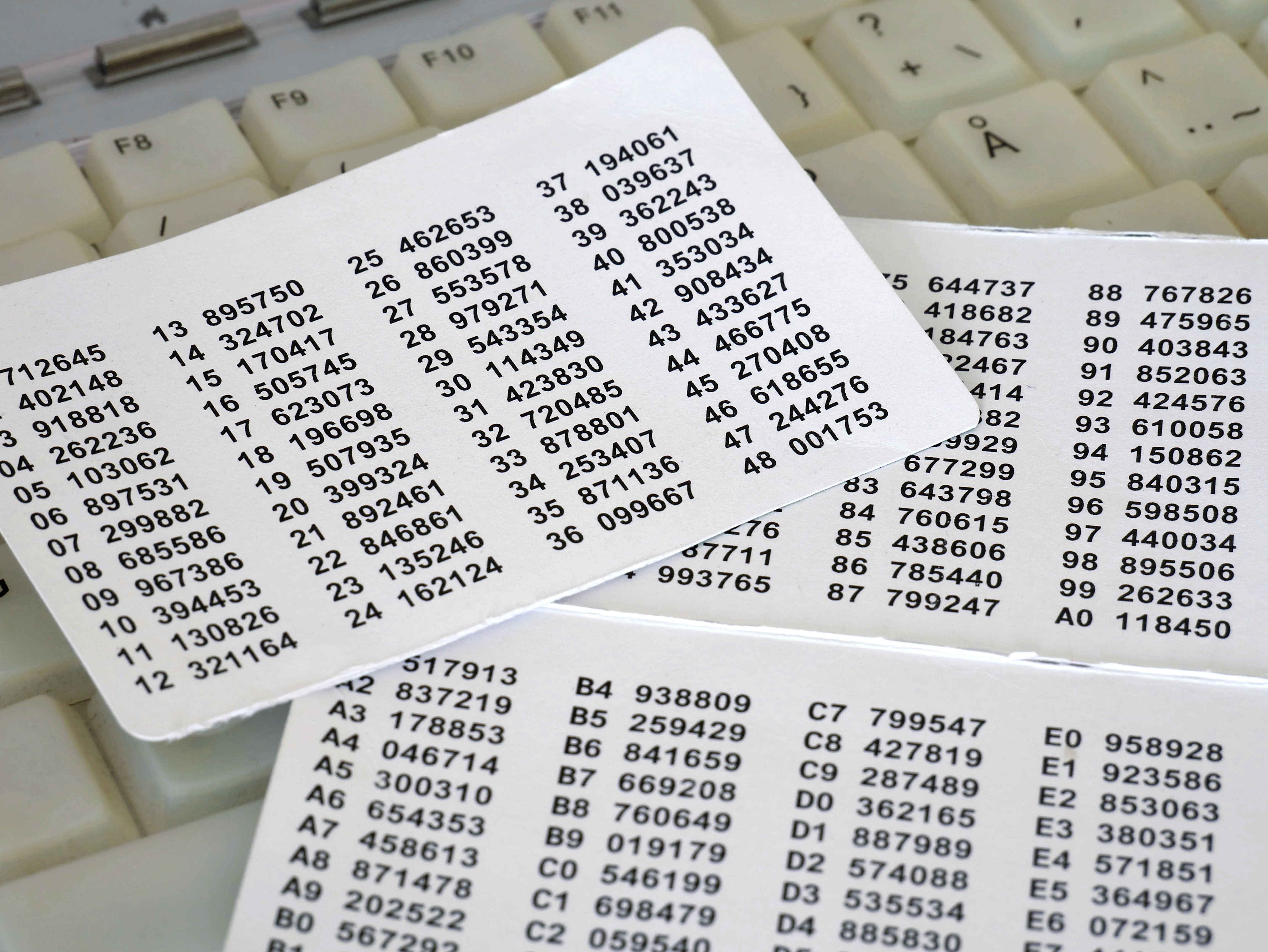 Transaction authentication number list.